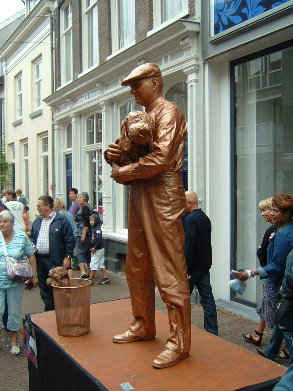 World Statues, Arnhem (The Netherlands)